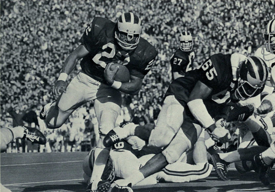 Photograph of Glenn Doughty (No. 22) and Reggie McKenzie (No. 65)